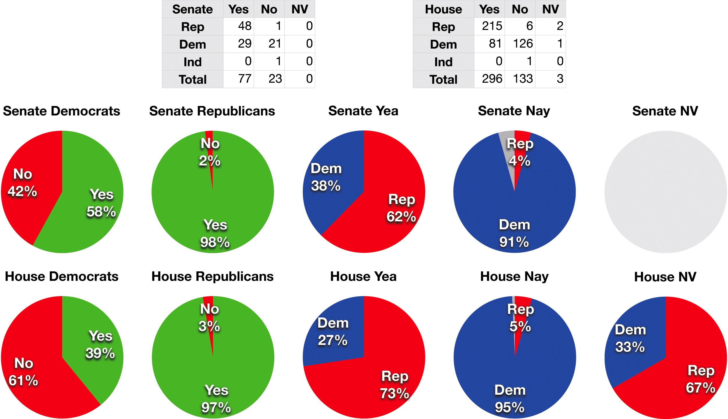 A chart representing the Senate and House votes for the H.J.Res. 114, the Iraq Resolution of 2002.